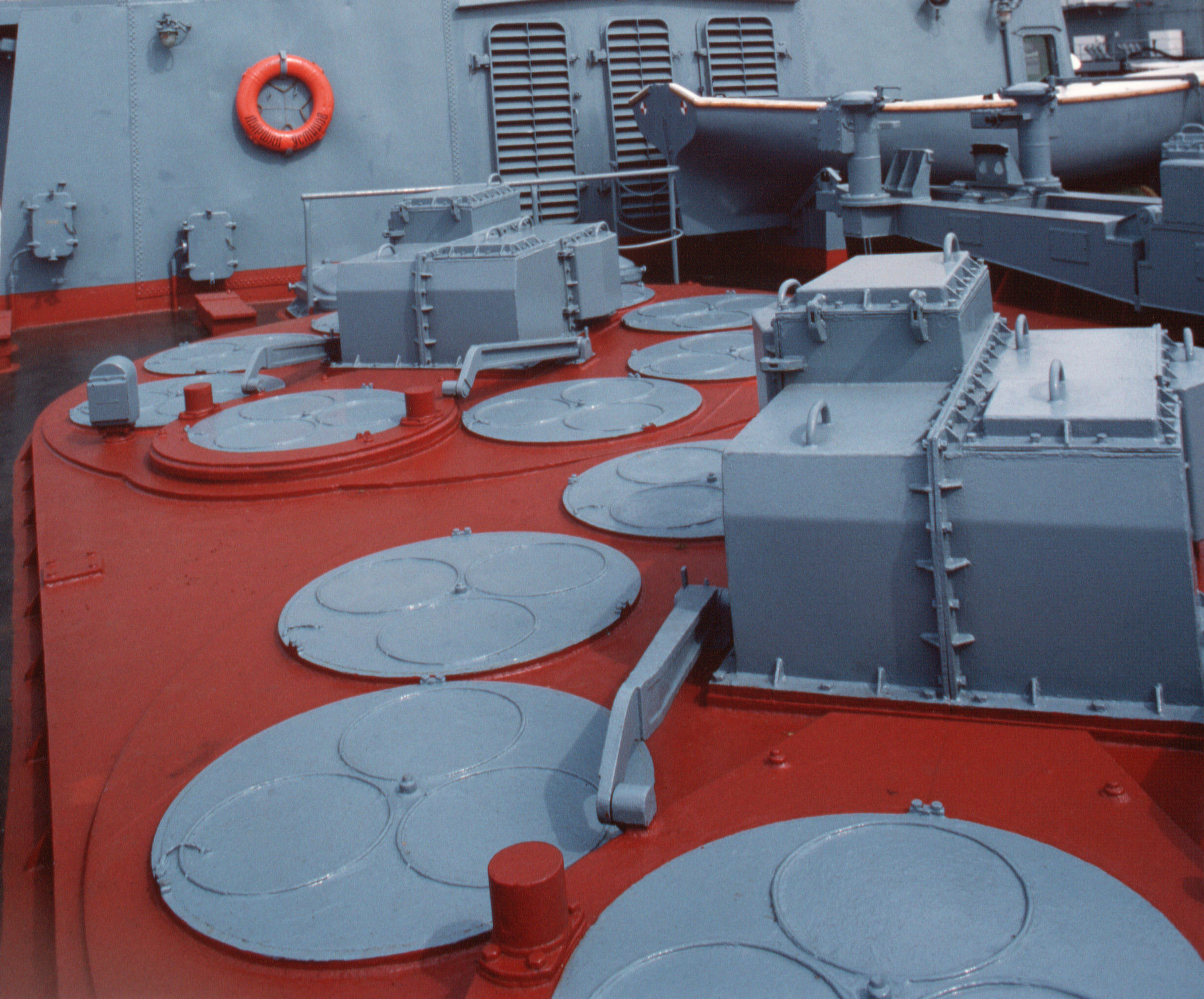 A view of the deck area housing the SA-N-6 vertical missile launchers on the Slava Class Guided Missile Cruiser MARSHAL USTINOV (CG 088). MARSHAL USTINOV, the Guided Missile Destroyer OTLICHNYY (DDG 434) and the Oiler GENRIKH GASANOV are making the first-ever Soviet naval visit to a US military port. Location: NAVAL BASE, NORFOLK, VIRGINIA (VA) UNITED STATES OF AMERICA (USA)